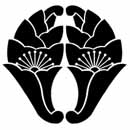 kamon